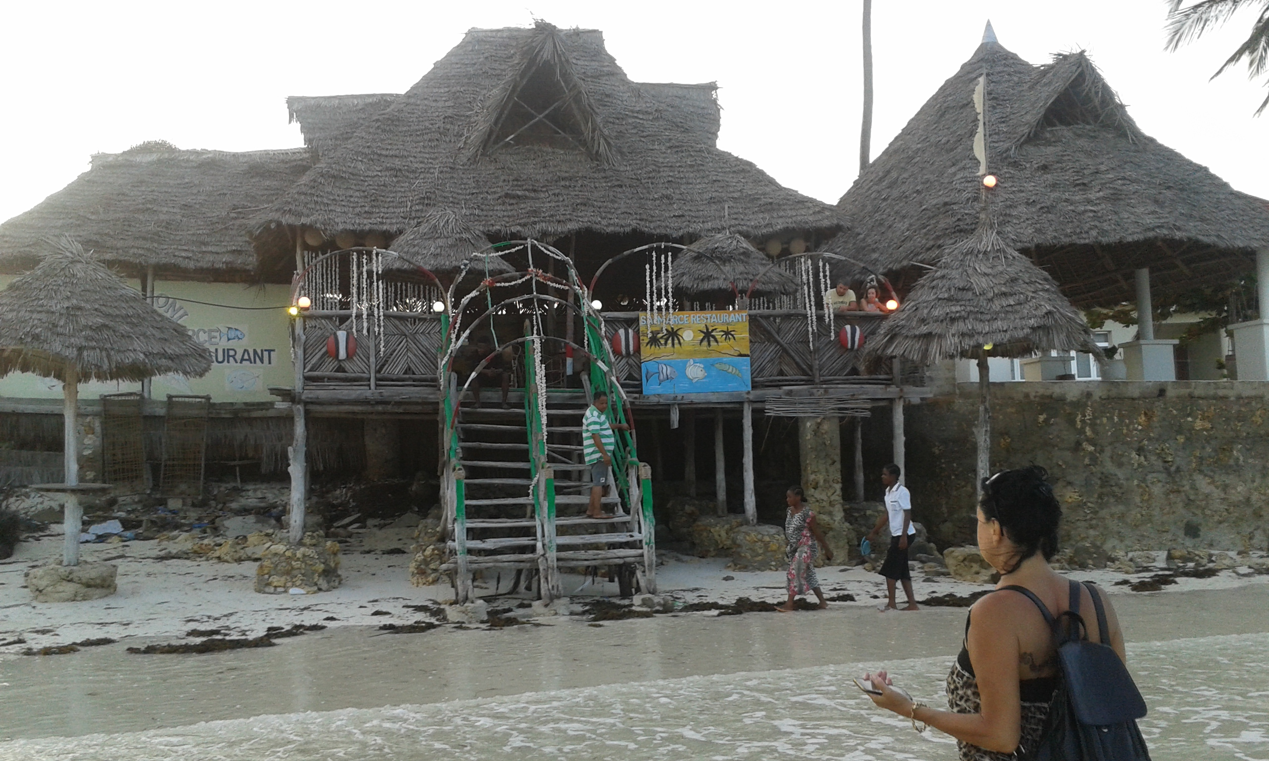 This is an image with the theme "Play" from: Tanzania